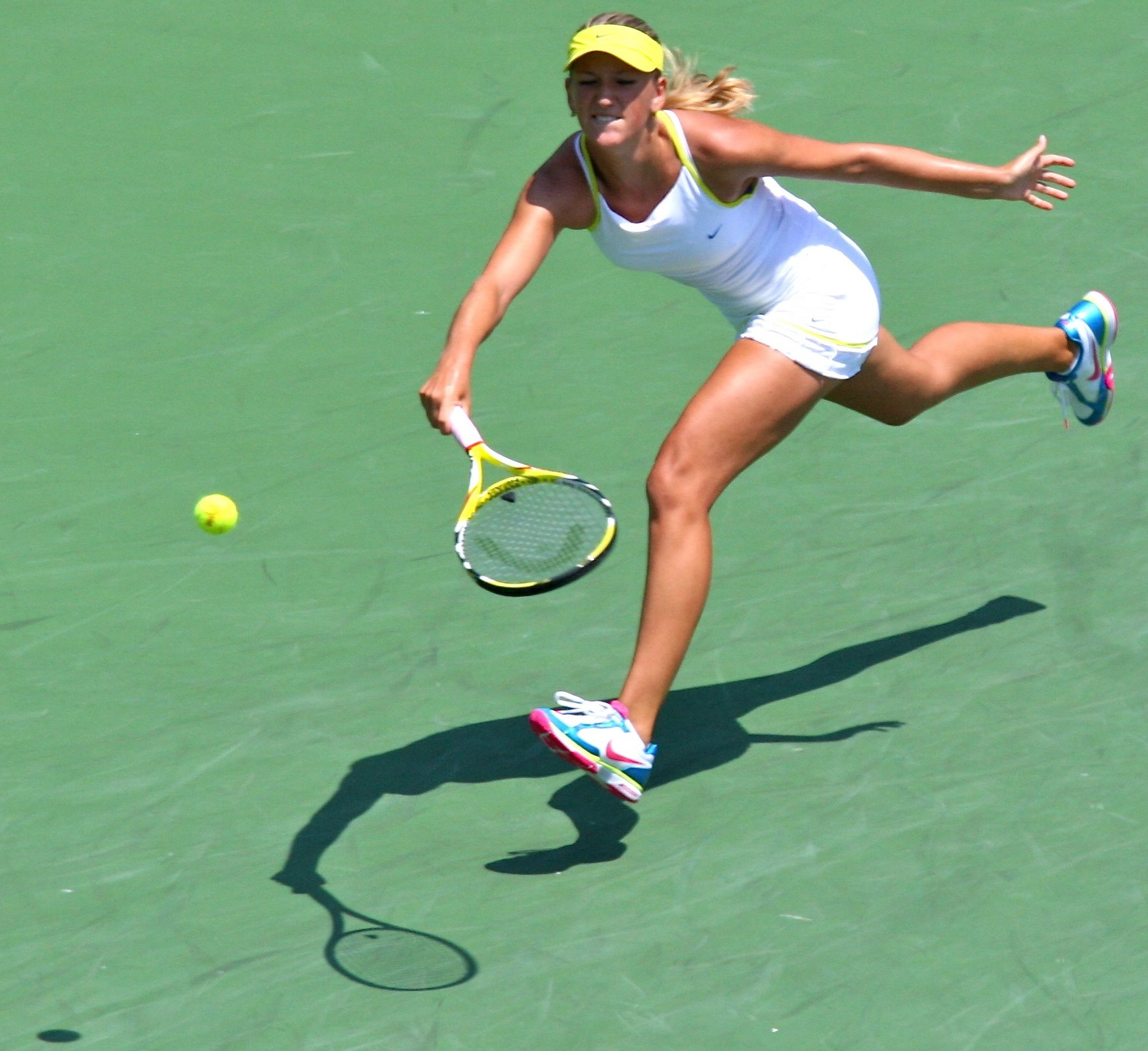 Victoria Azarenka at 2009 Sony Ericsson Open, Miami, Florida, United States